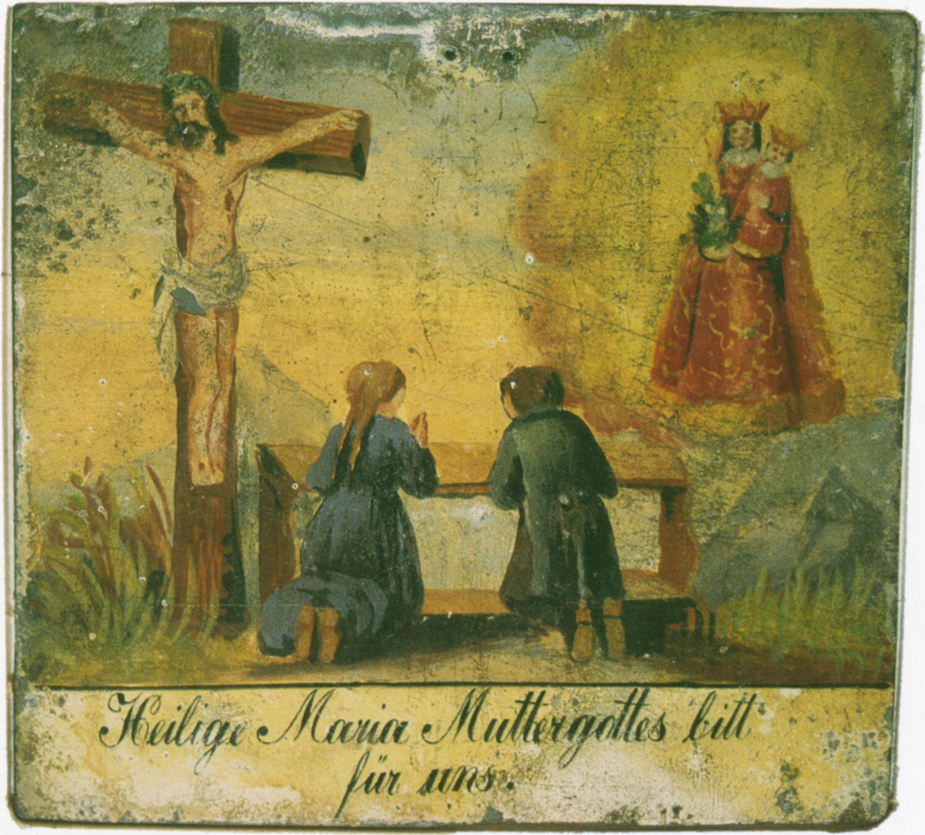 Maria in der Tanne Triberg votive picture 19th century